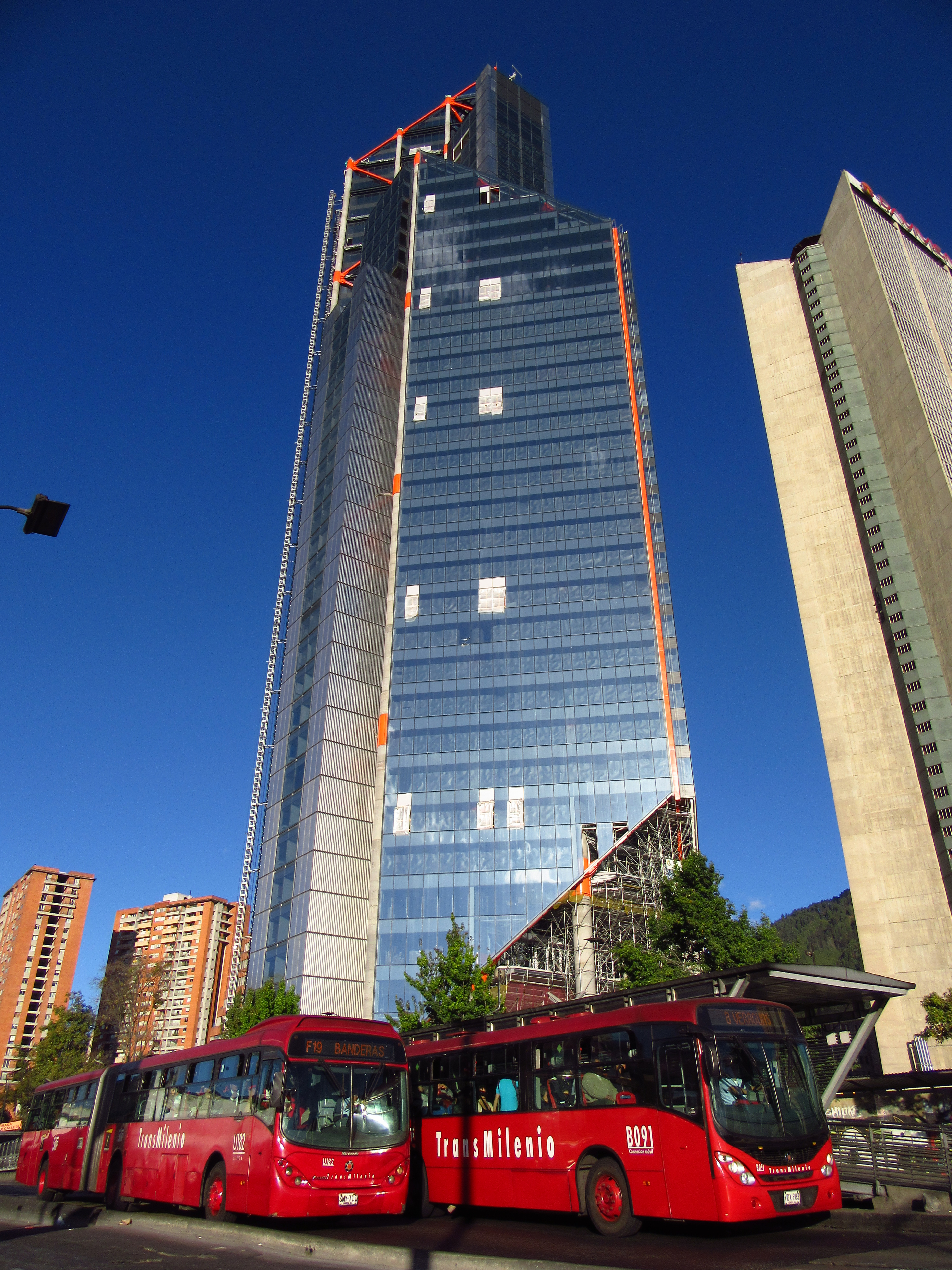 Bogotá